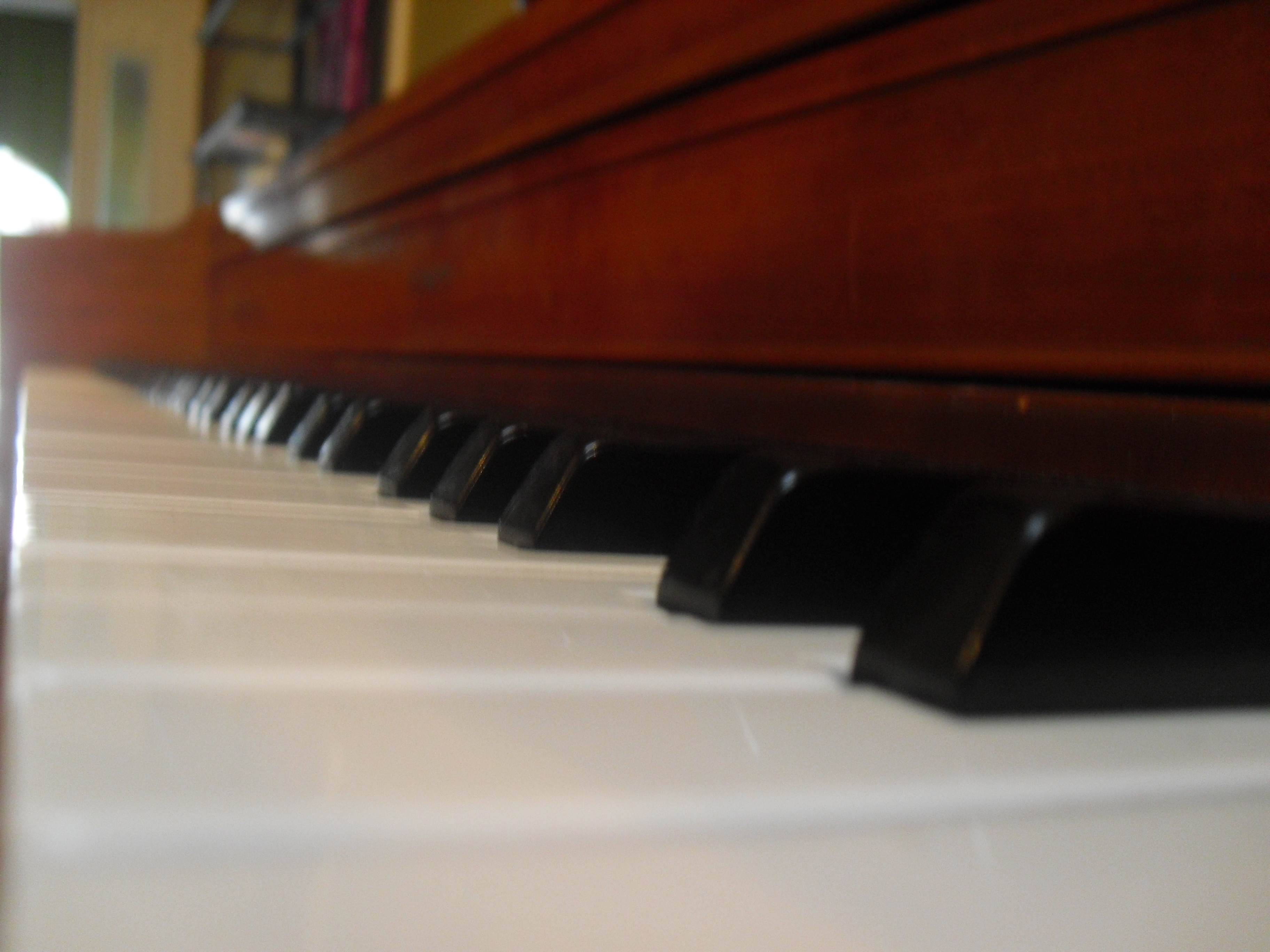 Musical keyboard